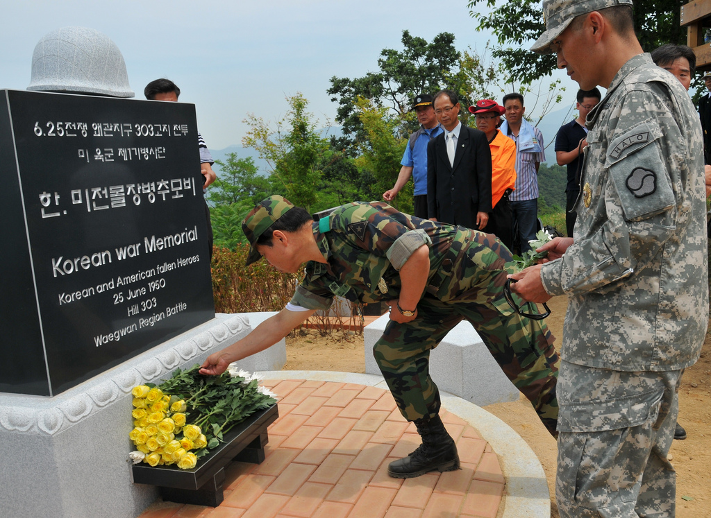 Soldiers of the US 501st Sustainment Brigade and South Korean Army troops rededicate the memorial on Hill 303 in Waegwan.